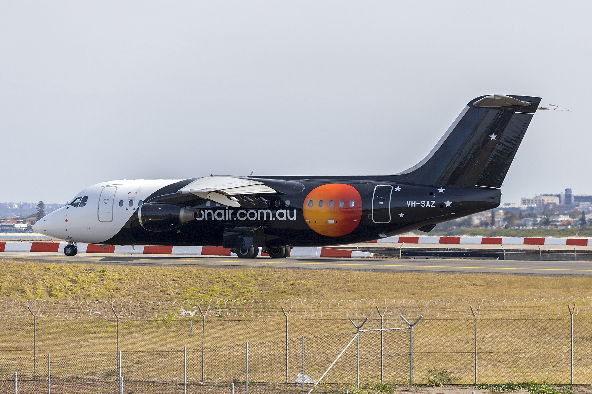 Pionair Australia (VH-SAZ) BAe 146-200QC at Sydney Airport.